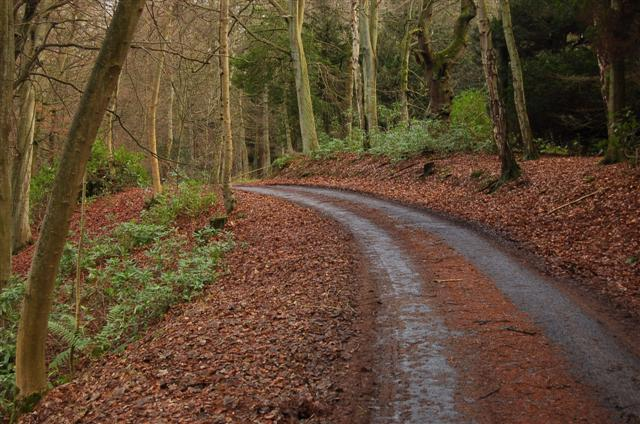 Track This track is in the extensive woodland of The Raith Estate, there was shooting today so the gamekeepers asked me to leave. I couldn't get any more pictures.